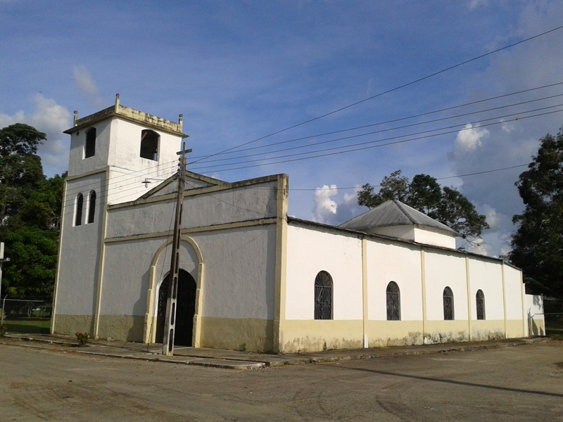 Our Lady of El Rosario Church. El Real, Barinas State. Venezuela.